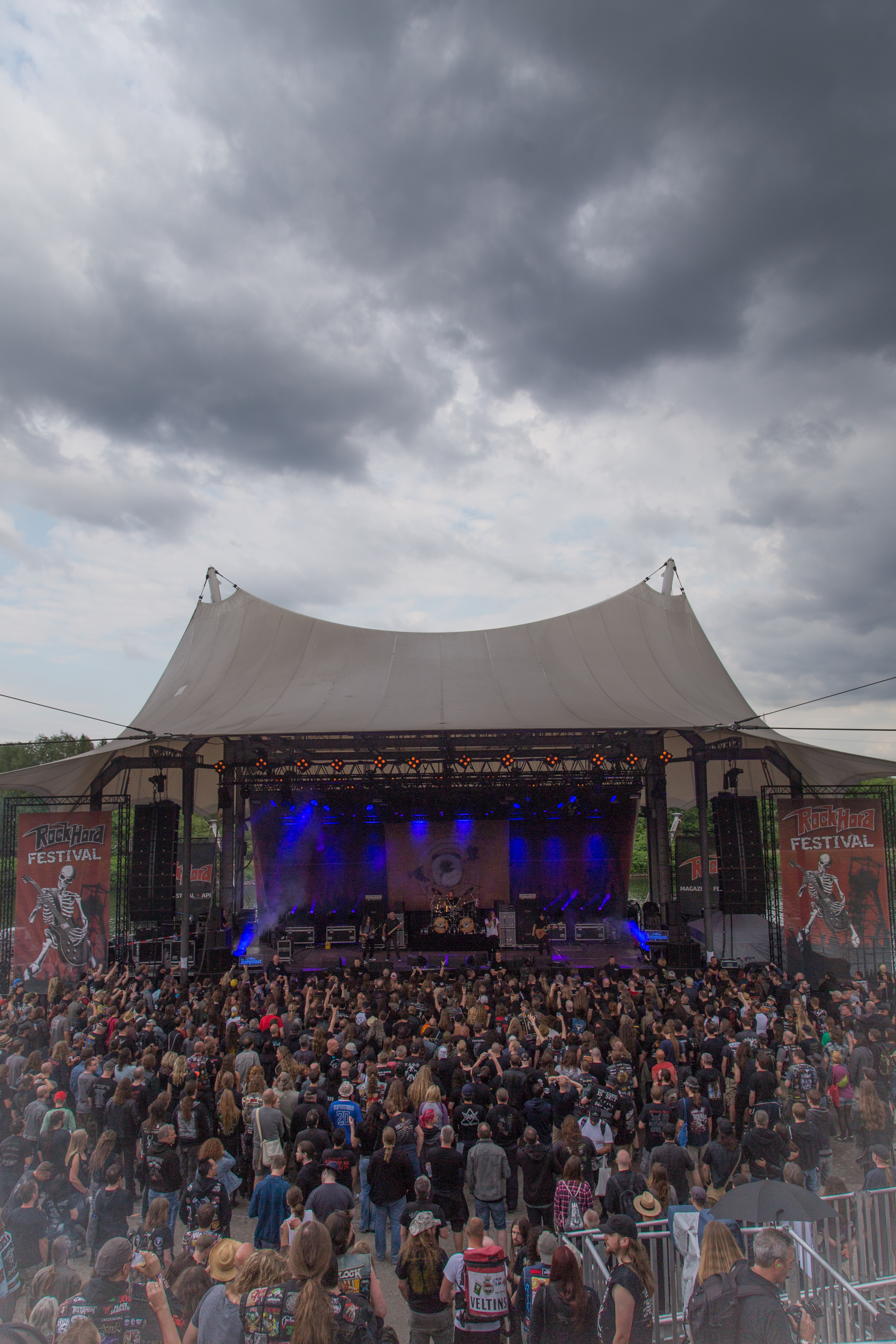 Fates Warning performing live at Rock Hard Festival 2017, Gelsenkirchen, Germany